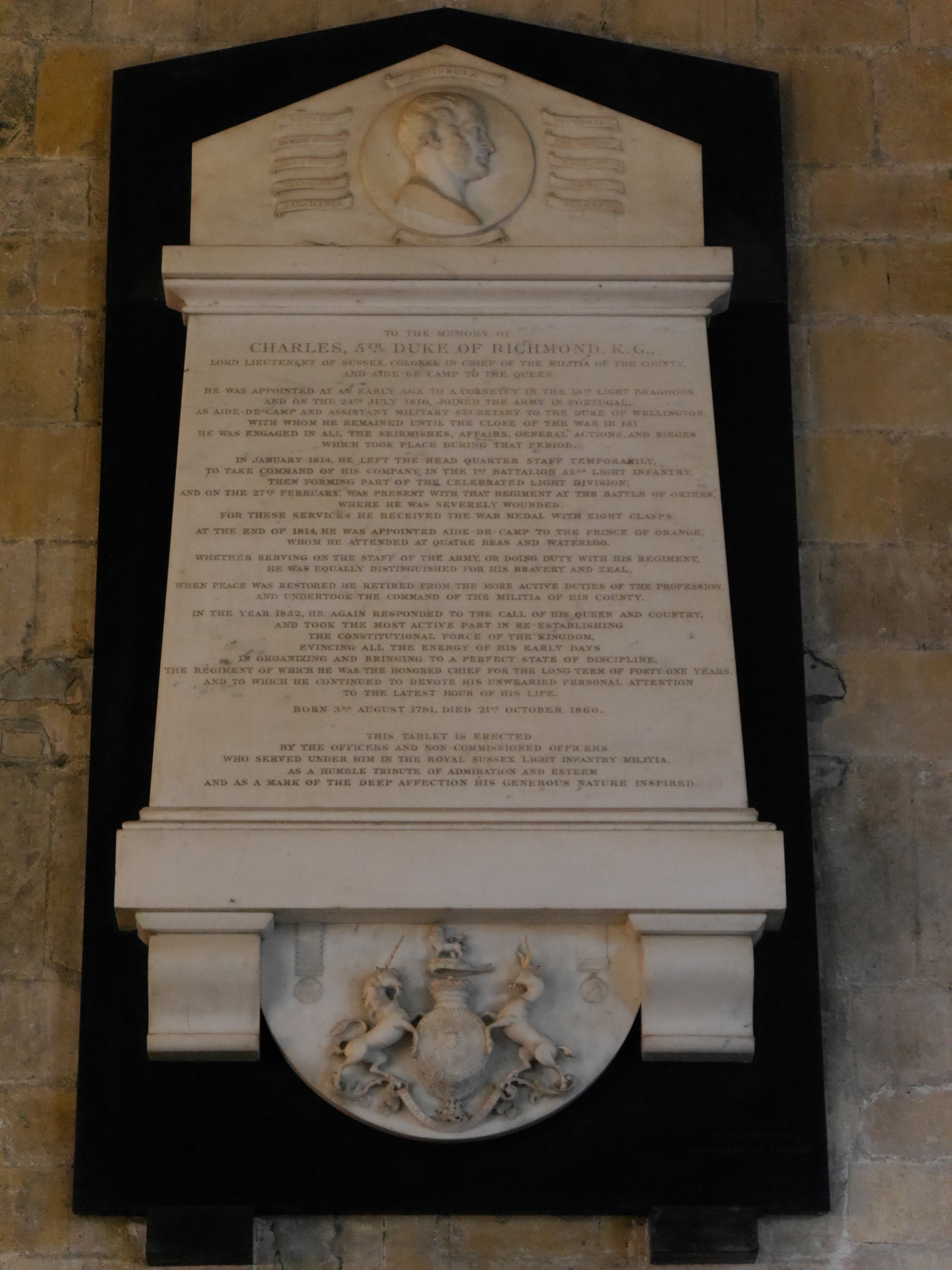 Chichester Cathedral, July 2015